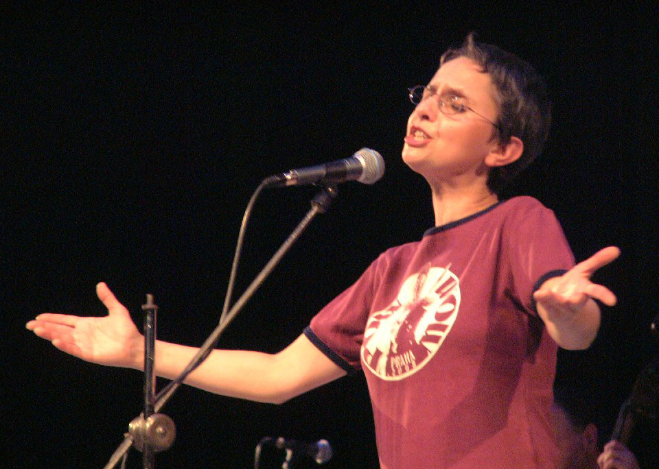 Zuzana Navarová (concert with Koa band), Vsetín, Czech Republic